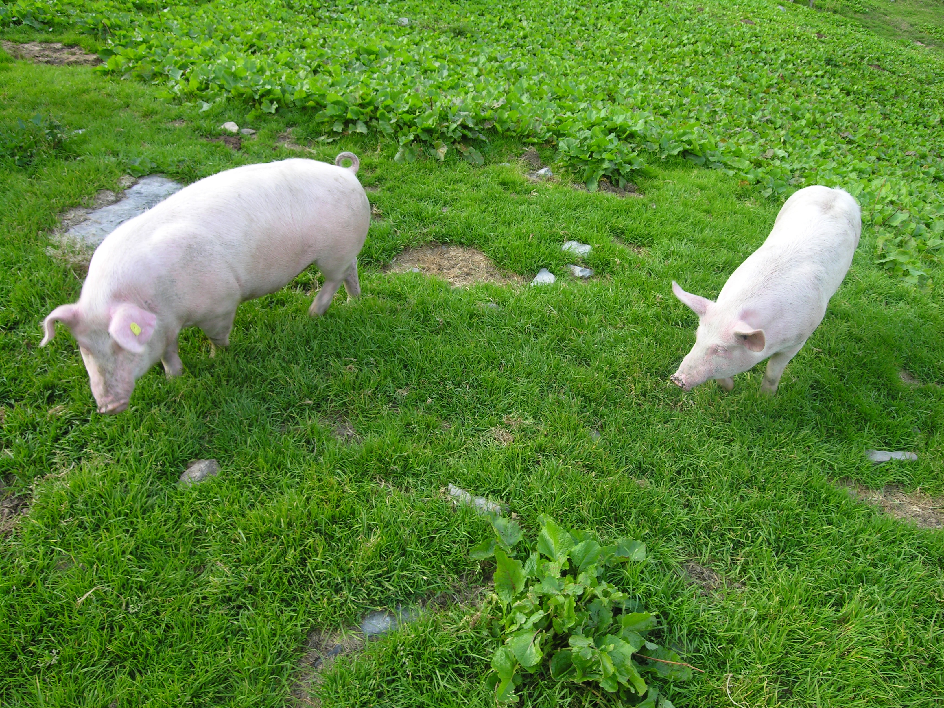 Extensive farming in the farm Alp Sfi, near Cimalmoto, Switzerland